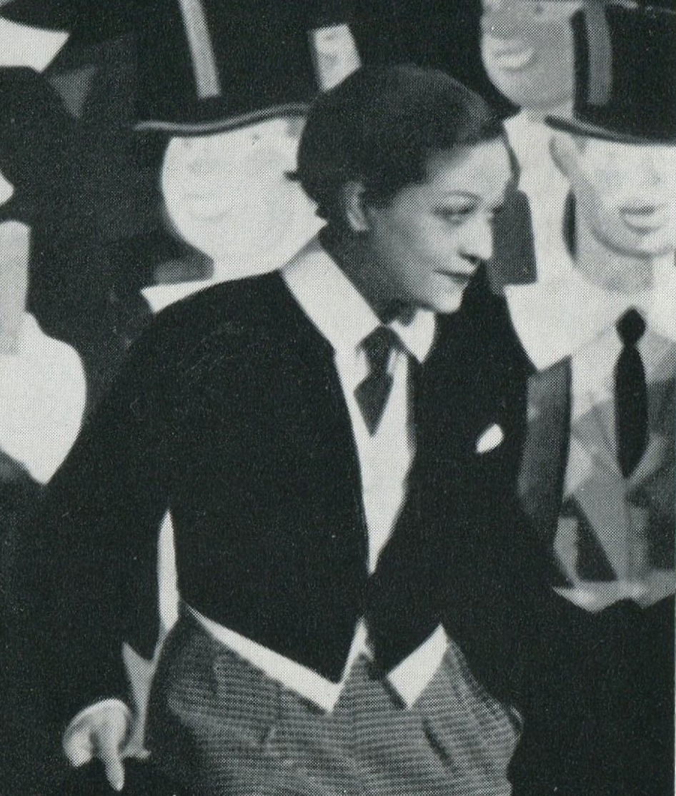 Grethe Weiser 1932 im Berliner Wintergarten